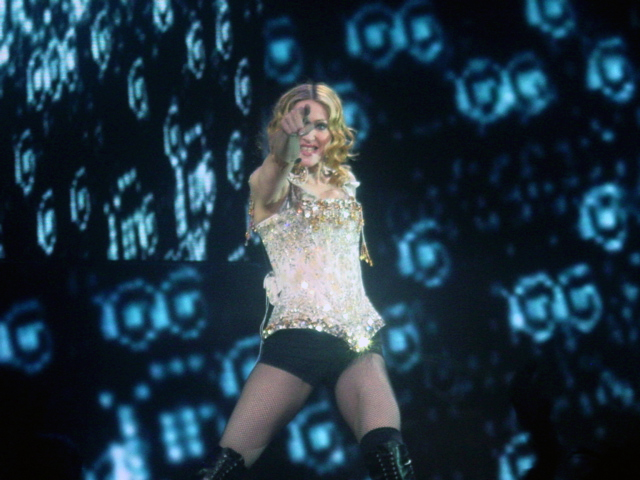 Concert